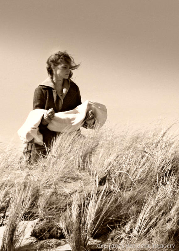 Emma Watson filming for Harry Potter and the Deathly Hallows at Freshwater West, Pembrokeshire in May 2009.